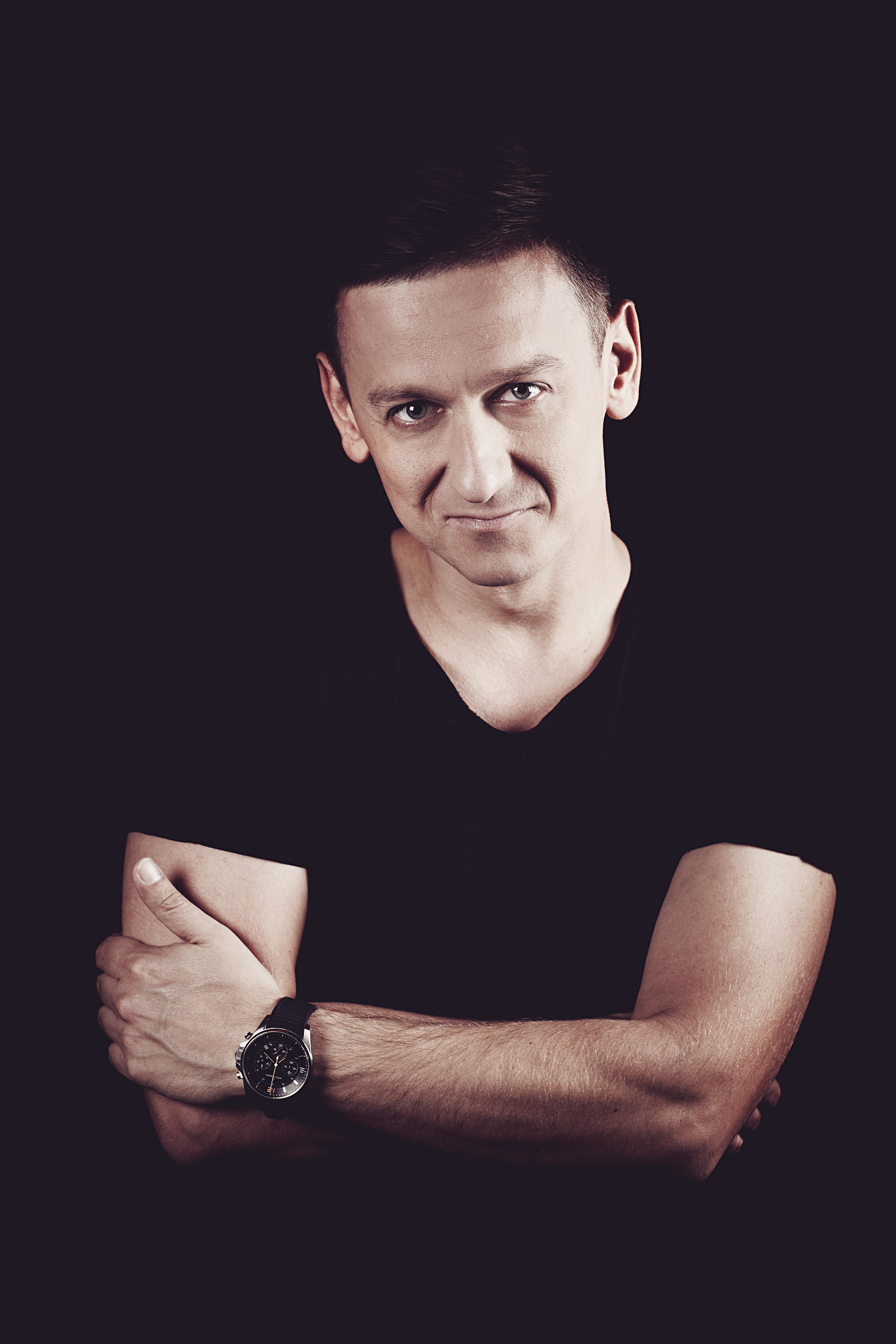 C-BooL - Official Press Foto (2013)